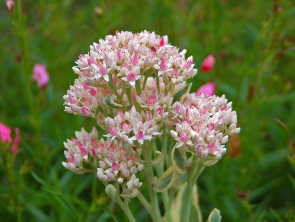 Sedum erythrostictum - Botanika Zahrada Fata Morgana Praha